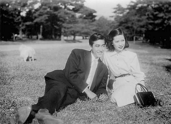 Kōji Tsuruta and Setsuko Wakayama in Bara gassen (薔薇合戦) directed by Mikio Naruse - 1950